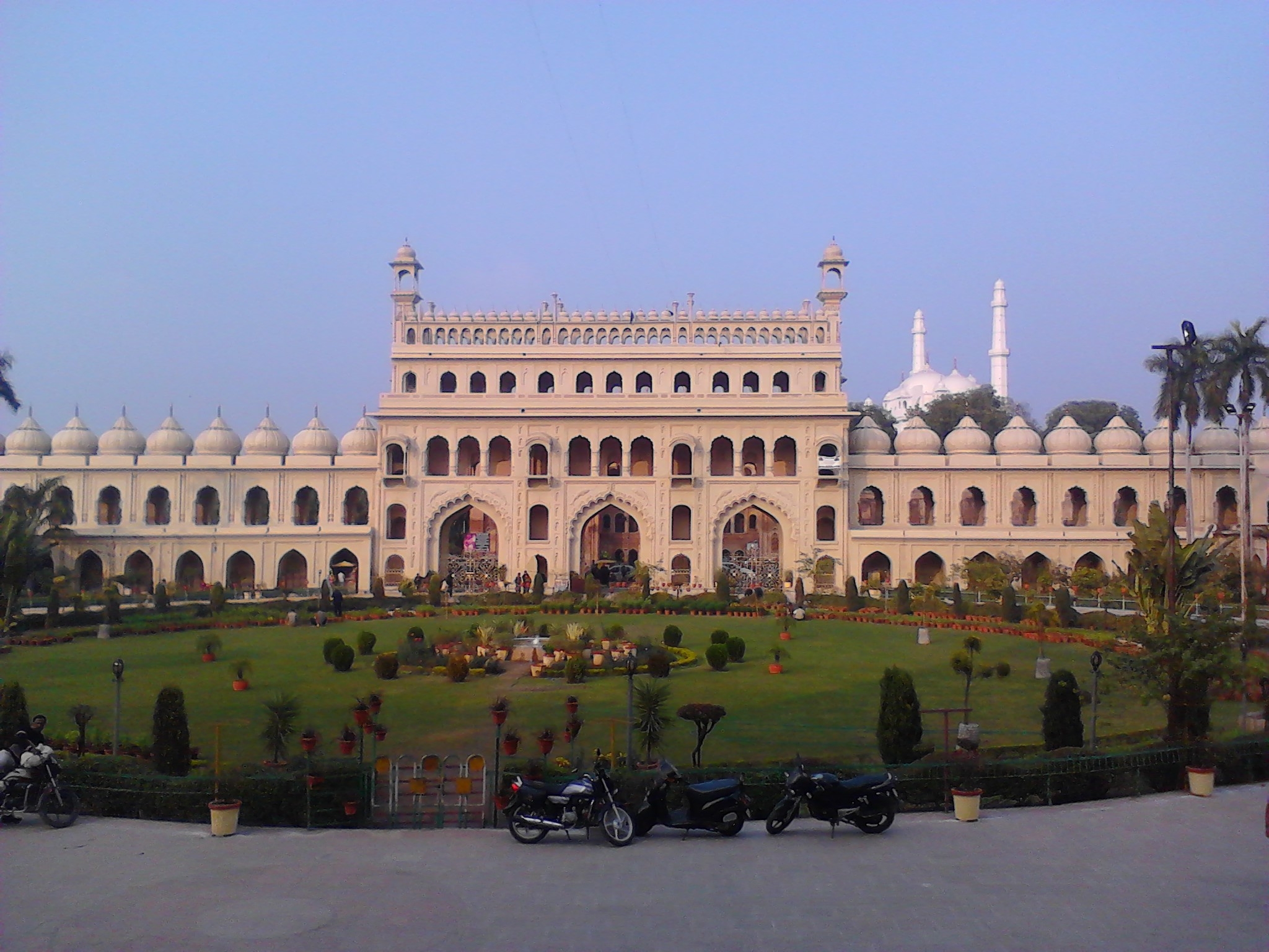 Bara Imambara (Urdu: بڑا امامباڑا, Hindi: बड़ा इमामबाड़ा) is an imambara complex in Lucknow, India, built by Asaf-ud-Daula, Nawab of Lucknow, in 1784. It is also called the Asafi Imambara. Bara means big, and an imambara is a shrine built by Shia Muslims for the purpose of Azadari. The Bara Imambara is among the grandest buildings of Lucknow.